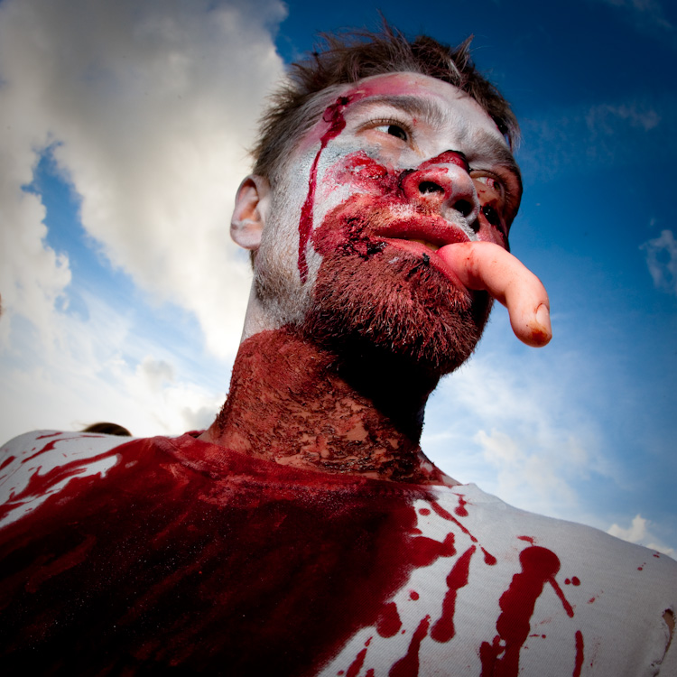 Brighton Zombie Walk 2010